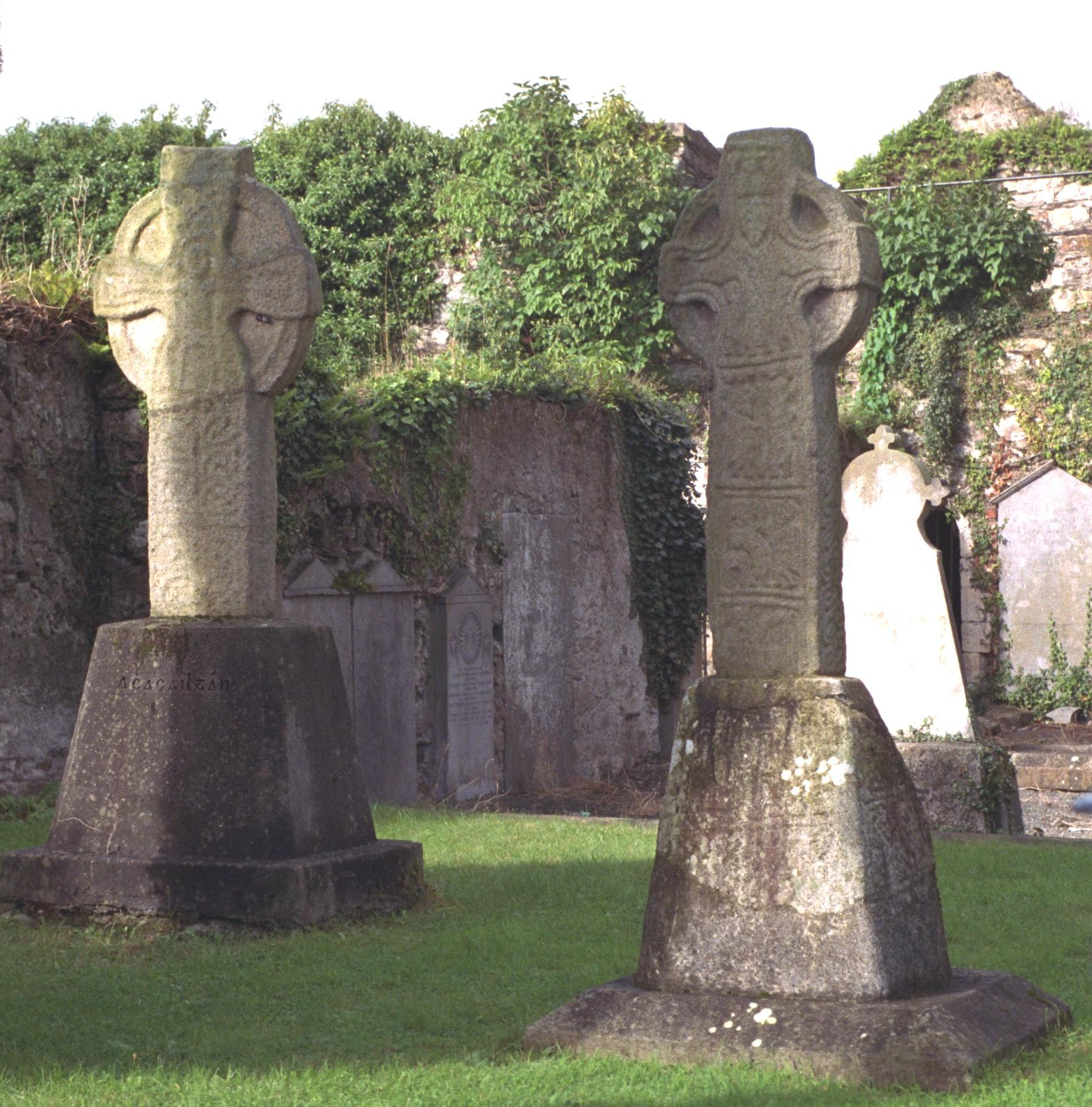 Graiguenamanach, County Kilkenny, Ireland East side of the High Crosses at Duiske Abbey